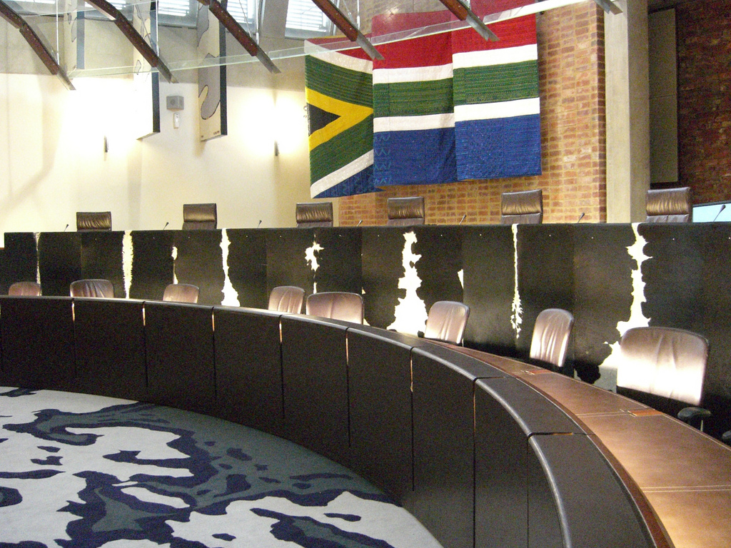 The judges' table in a courtroom of the Constitutional Court of South Africa at Constitution Hill, Braamfontein, Johannesburg.